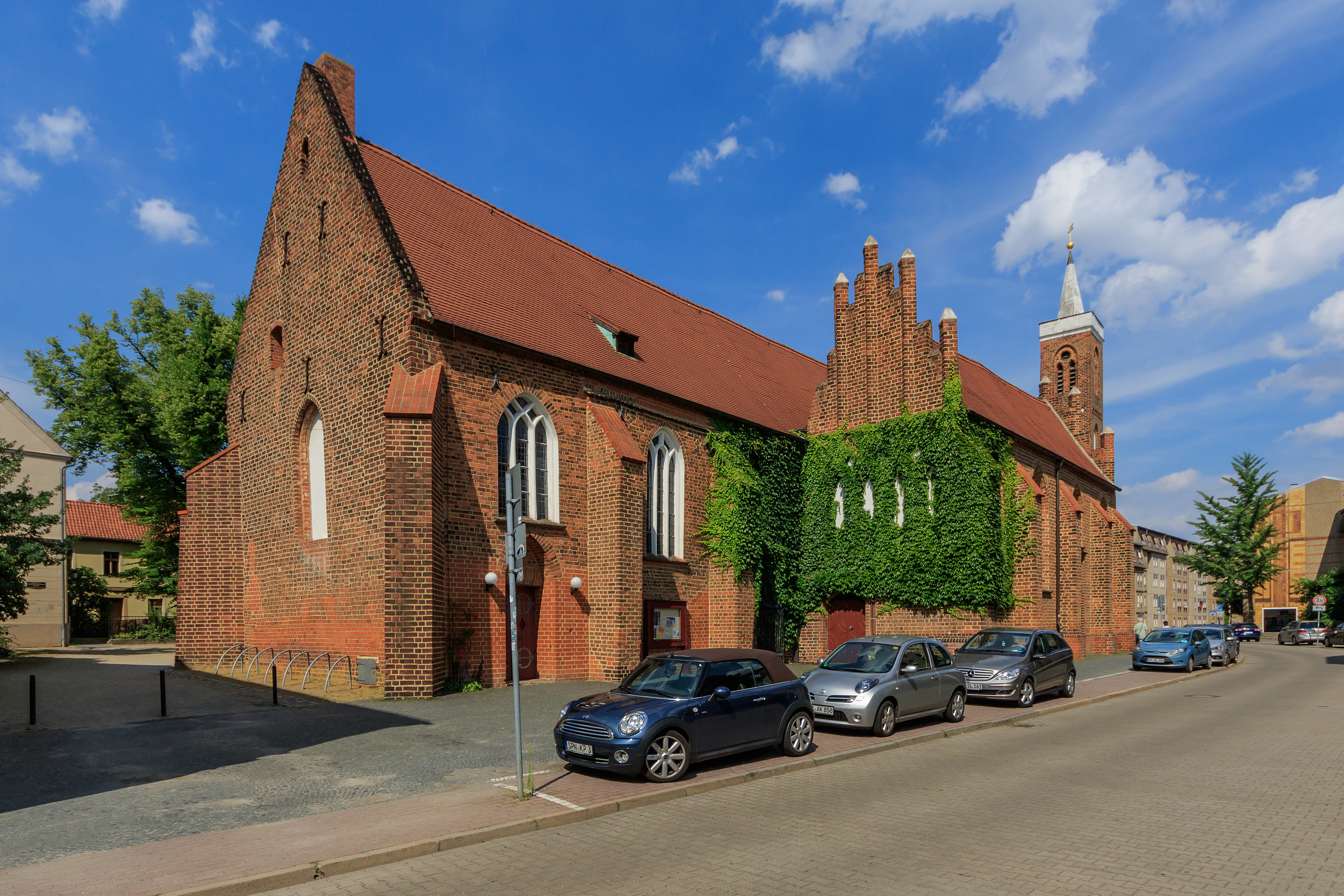 Former Monastery Church in Cottbus (Germany)